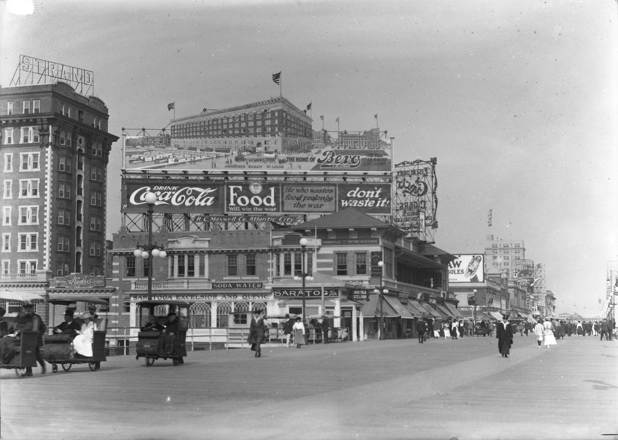 View at Atlantic City, New Jersey, Boardwalk, 1917. Shown are pedestrians and people being pushed in wicker sight-seeing carts. Billboards advertise Bevo and Coca-Cola, remind not to waste food (this was during World War I). Building at left labled "Strand"; shop at center has sign reading "Saratoga Excelsior and Quevic".